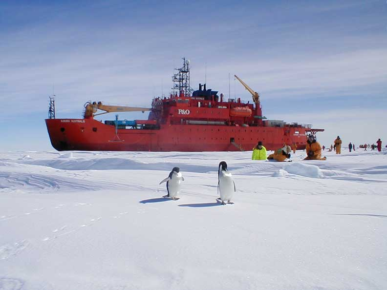 Researchers studying penguins while voyaging aboard the icebreaker Aurora Australis. Pictures taken while working for the Carbon Dioxide Information Analysis Center